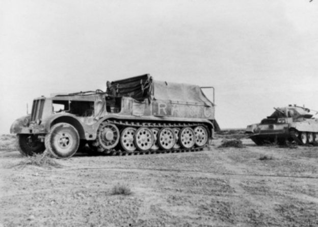 A captured German SdKfz 9 18 ton half track is used to pull a damaged British Crusader tank in North Africa.